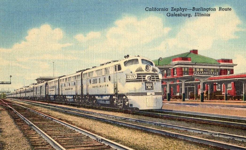 Postcard depiction of the California Zephyr at Galesburg, Illinois.